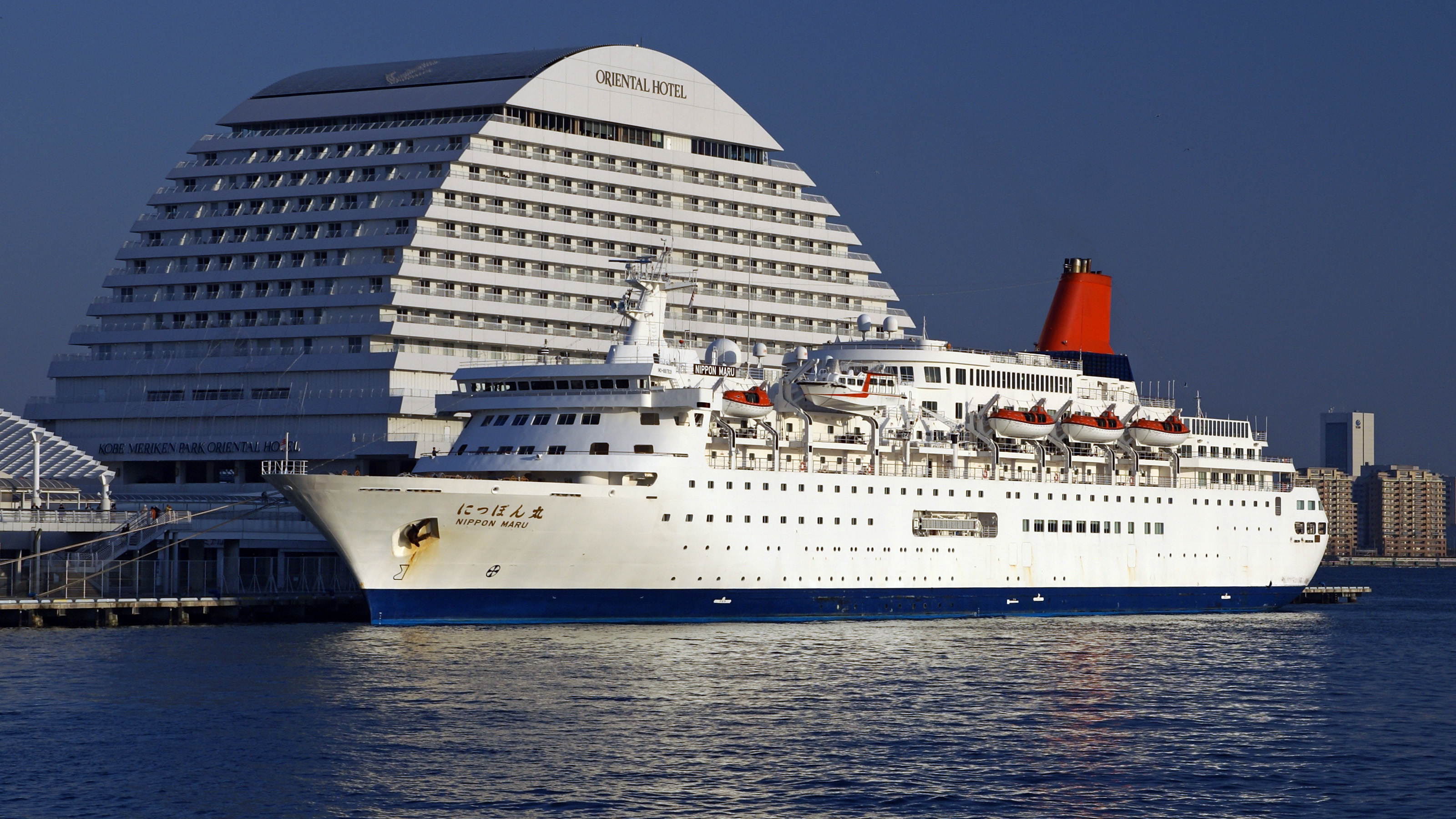 "Nipponmaru" who anchors at "Nakatottei" of the Kobe harbor ( Kobe, Hyogo prefecture, Japan)